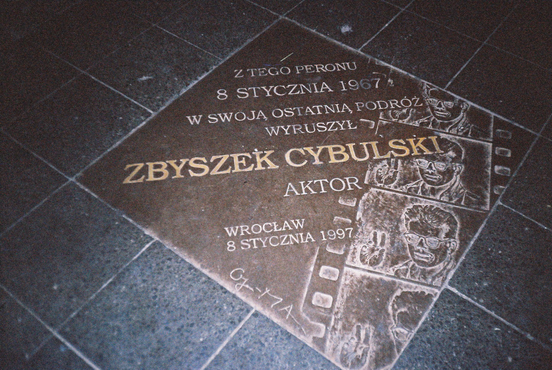 Wrocław, Poland. The plaque in memory of Polish actor Zbigniew Cybulski in the platform pavement of Wrocław main railway station, where he died under train wheels in 1967. Erected in 30th anniversary of accident, January 8th, 1997.